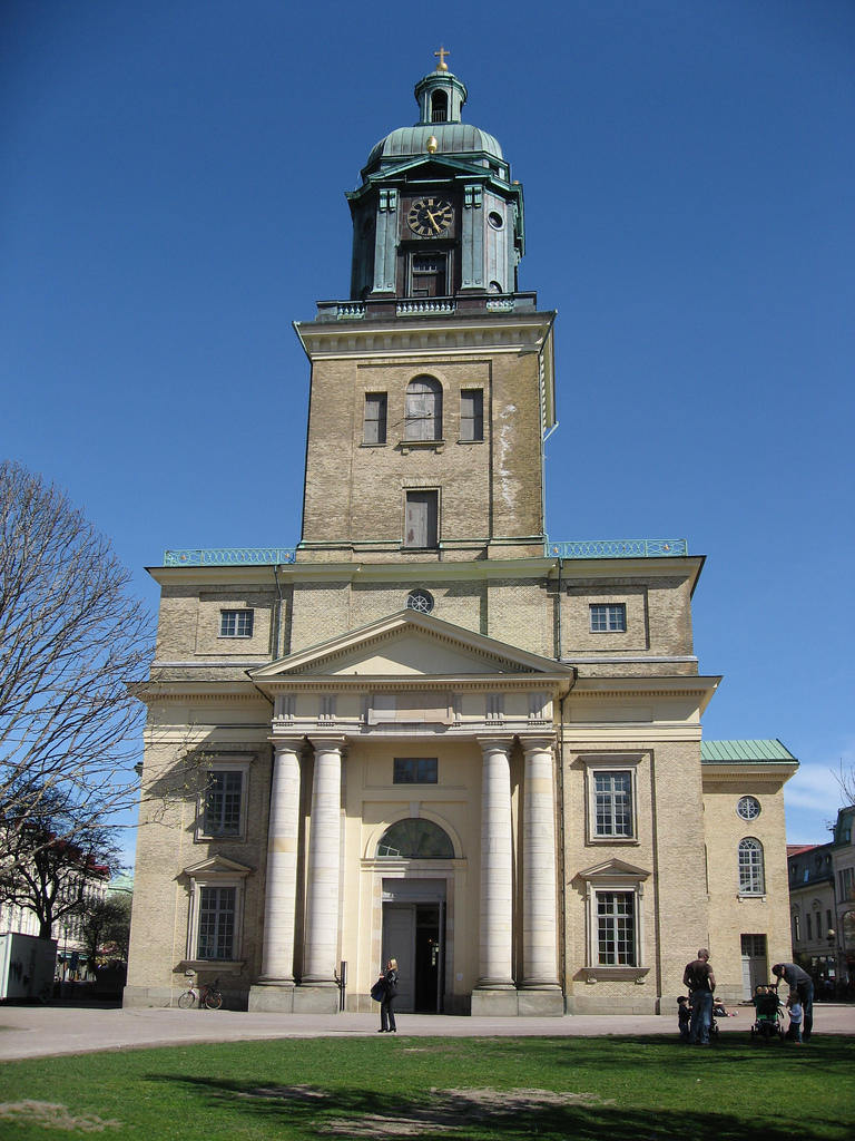 The cathedral in Göteborg. Photo taken by Abelson in April 2007.